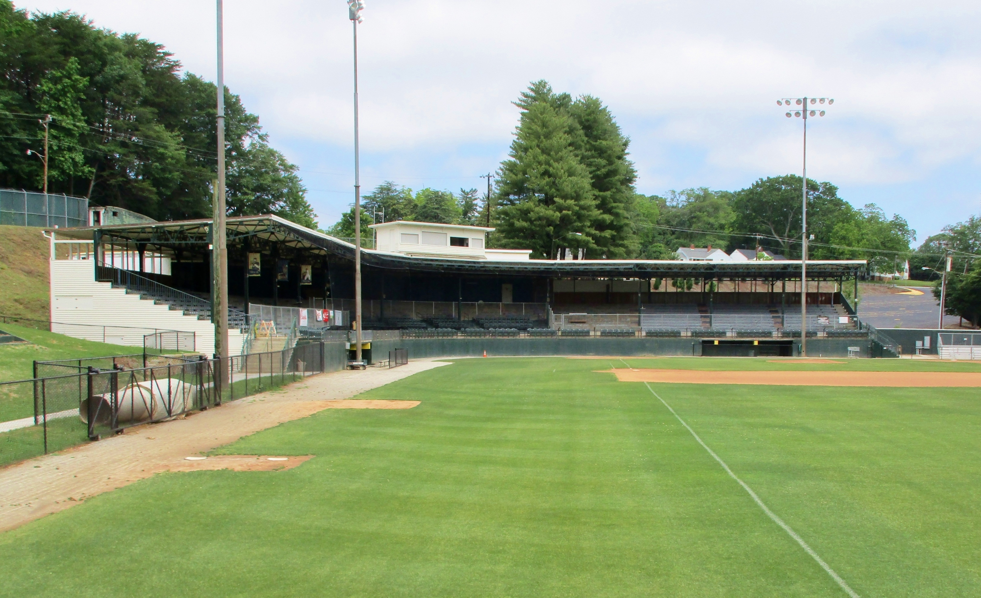 Duncan Park Stadium in late spring 2016 after additional renovations were completed.